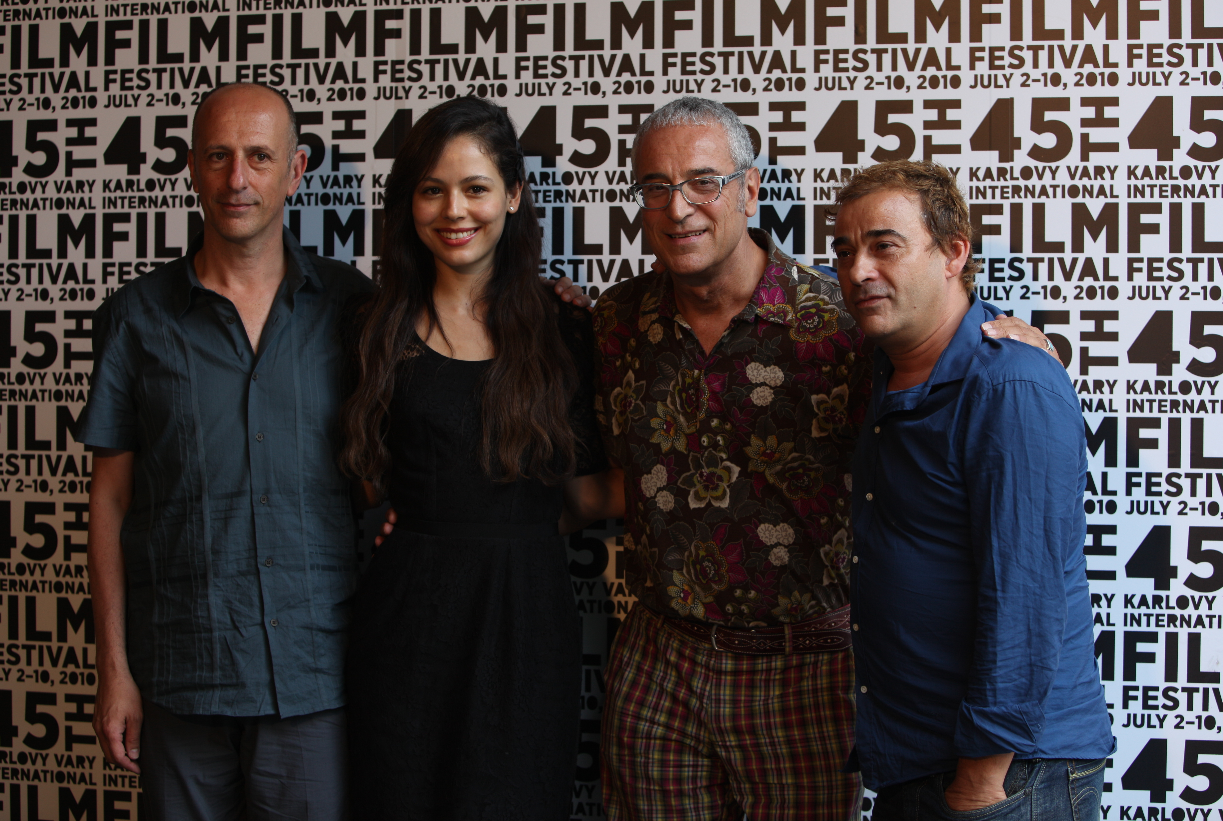 The delegation of the film La Mosquitera at 2010 Karlovy Vary International Film Festival. From the left: Agustí Vila, Martina García, Luis Miñarro, Eduard Fernández